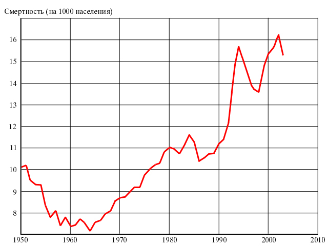 Graph of the death rate in RSFSR and RF 1960-2005.